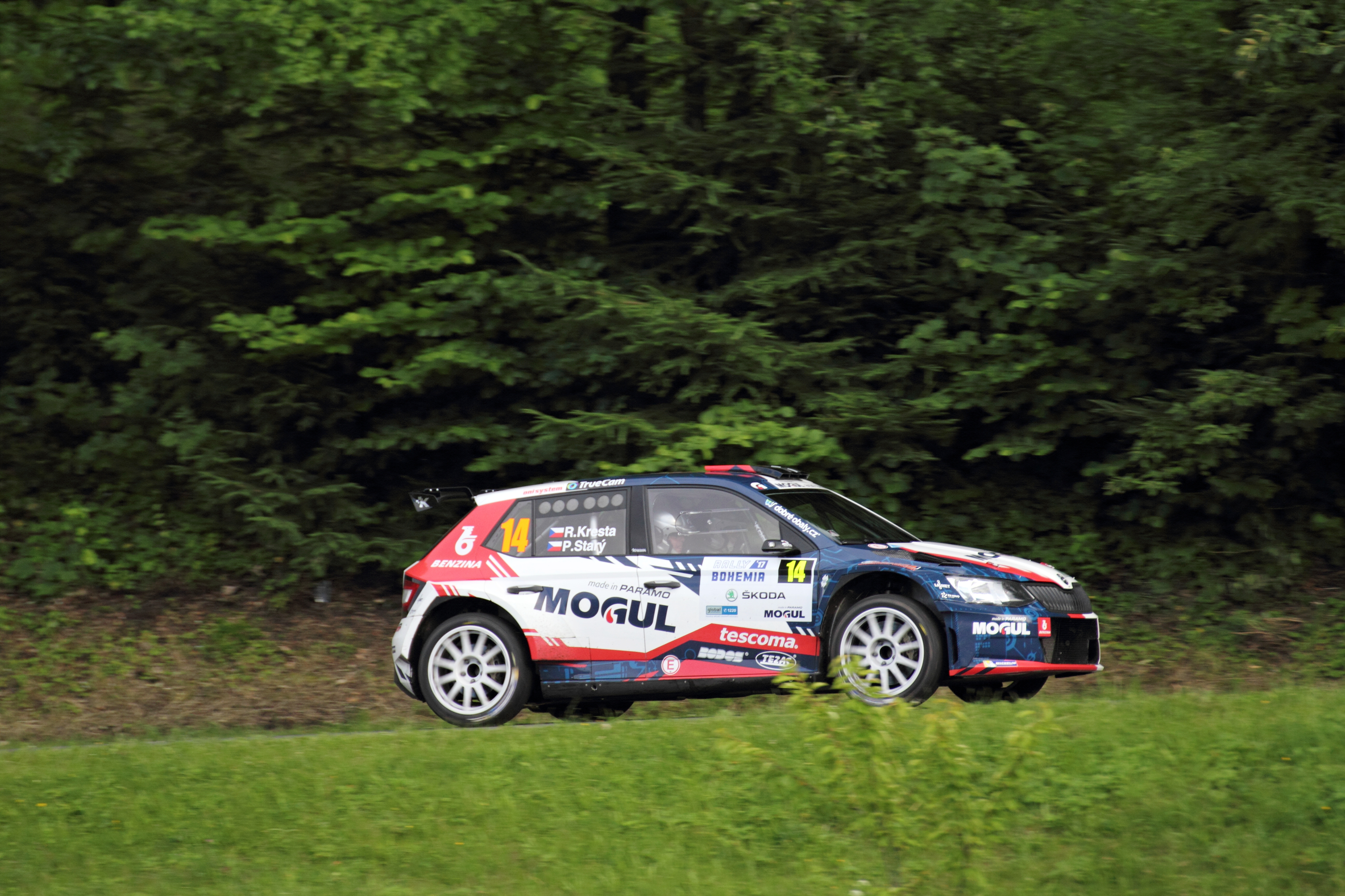 Kresta-Starý, 2017 Rally Bohemia